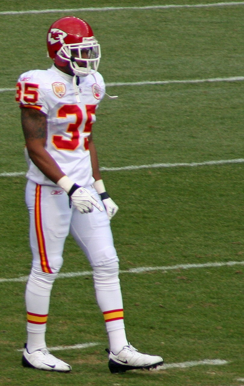 Ricky Price, a player on the Kansas City Chiefs American football team.